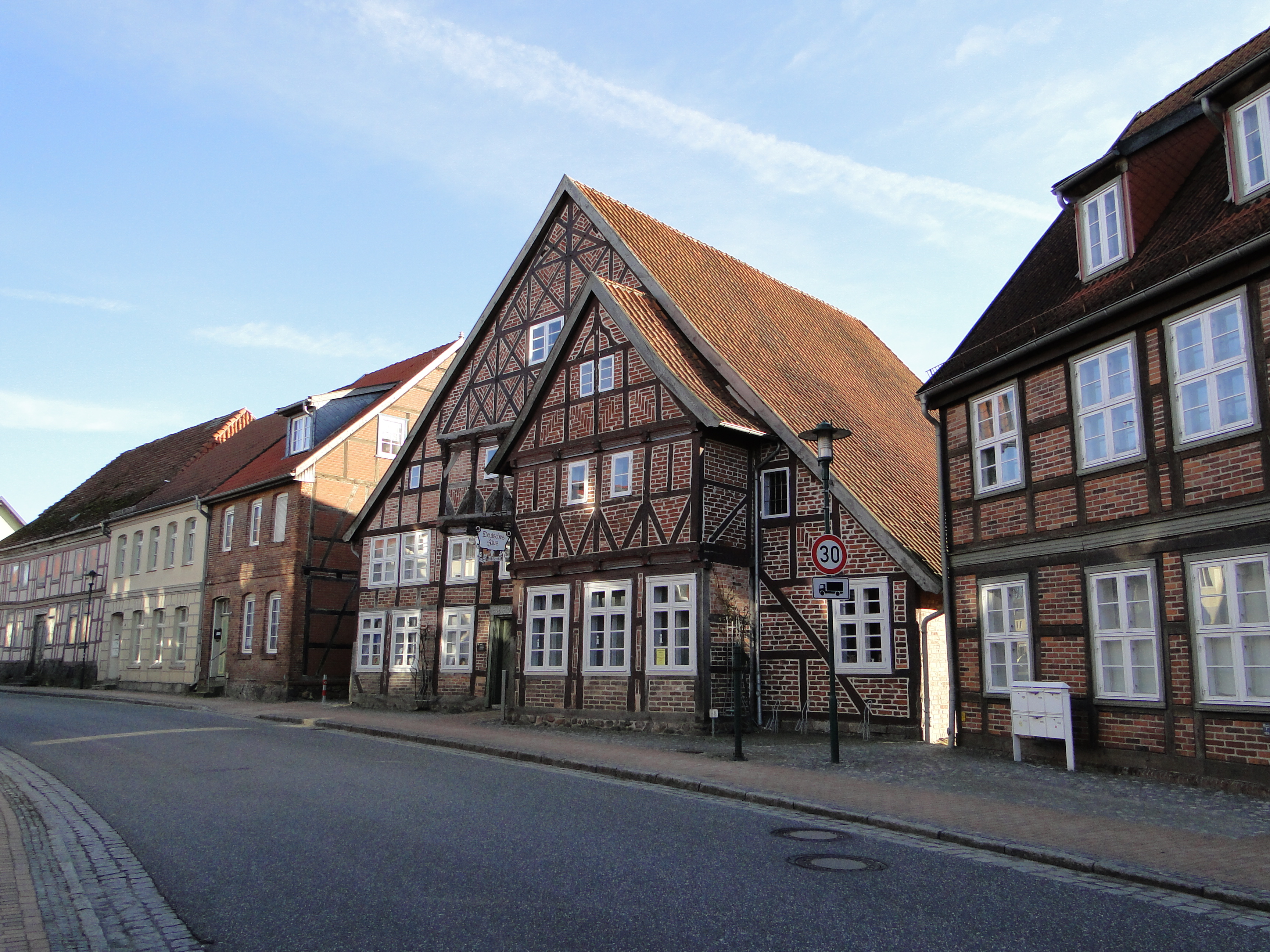 German house in/near Rehna, district Nordwestmecklenburg, Mecklenburg-Vorpommern, Germany